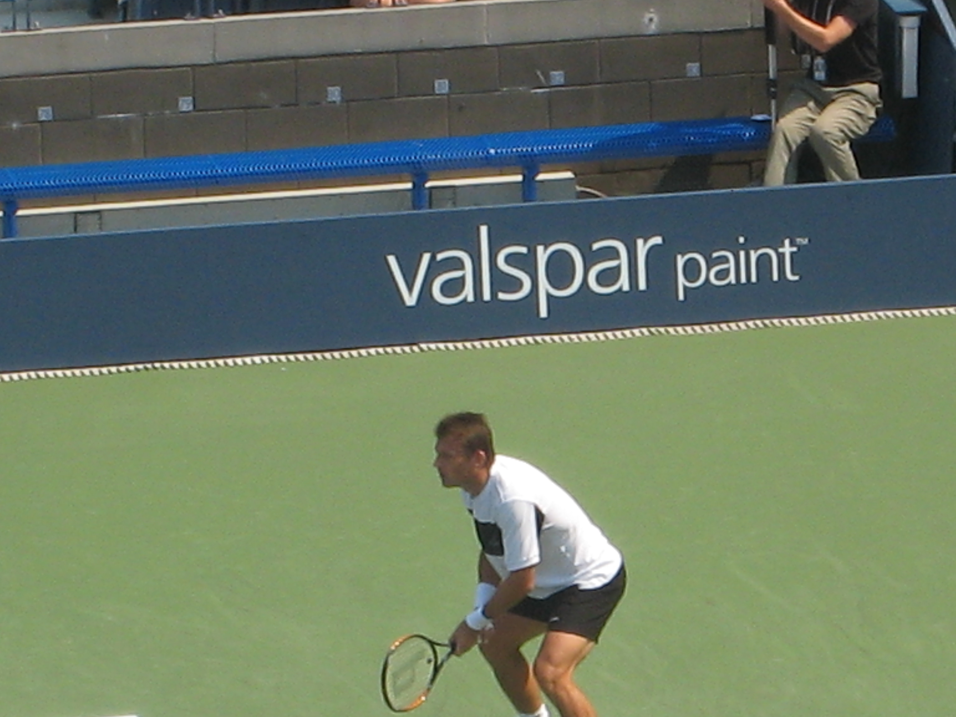 Pavel Vízner and his doubles partner Lukáš Dlouhý lost in the 2007 U.S. Open doubles final. The team lost.[1]